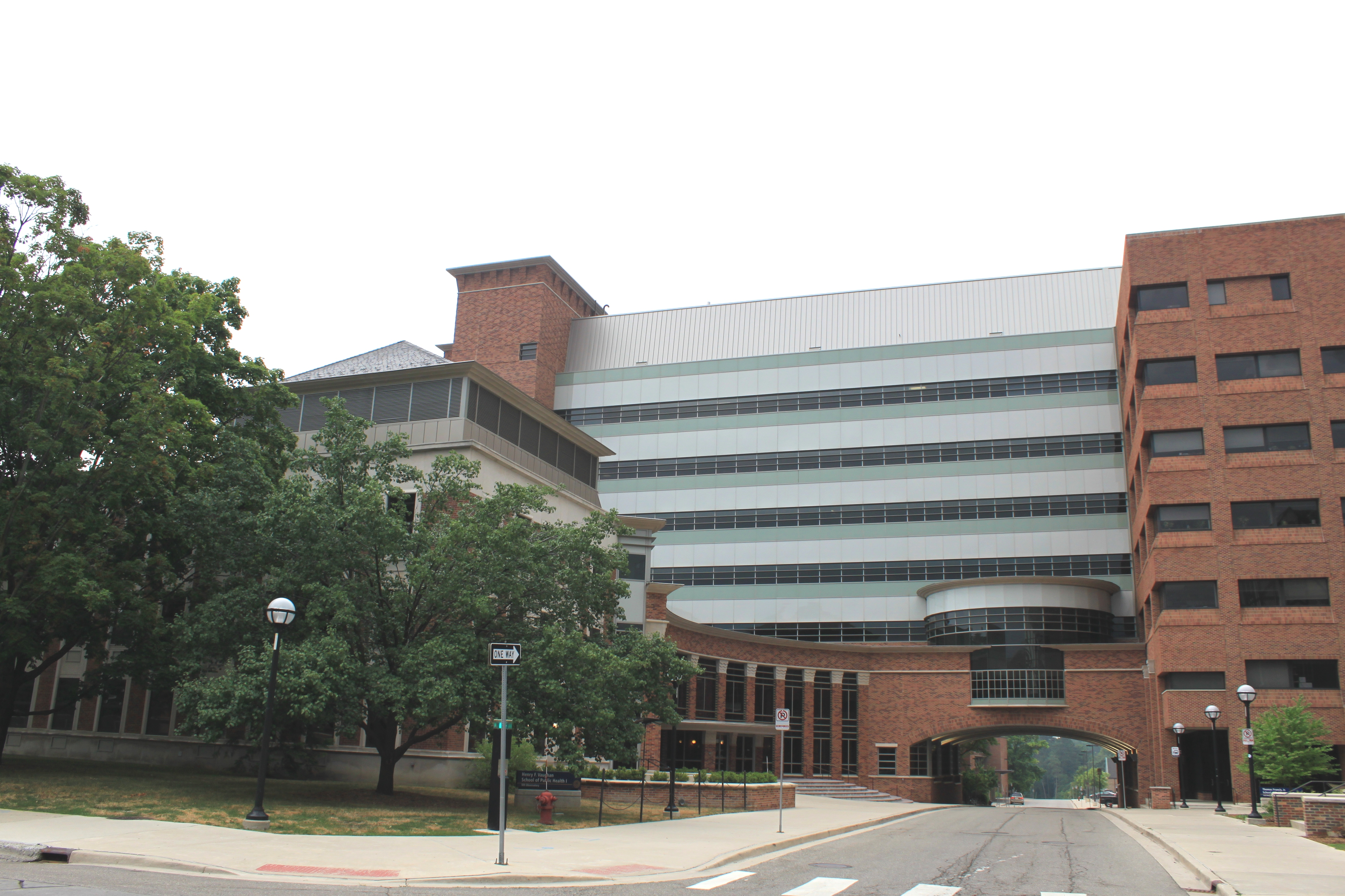 Henry F. Vaugan School of Public Health University of Michigan Ann Arbor Michigan.JPG